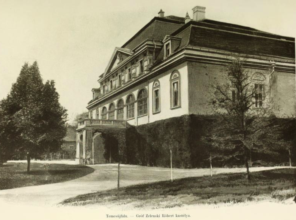 Temesújfalu, castle